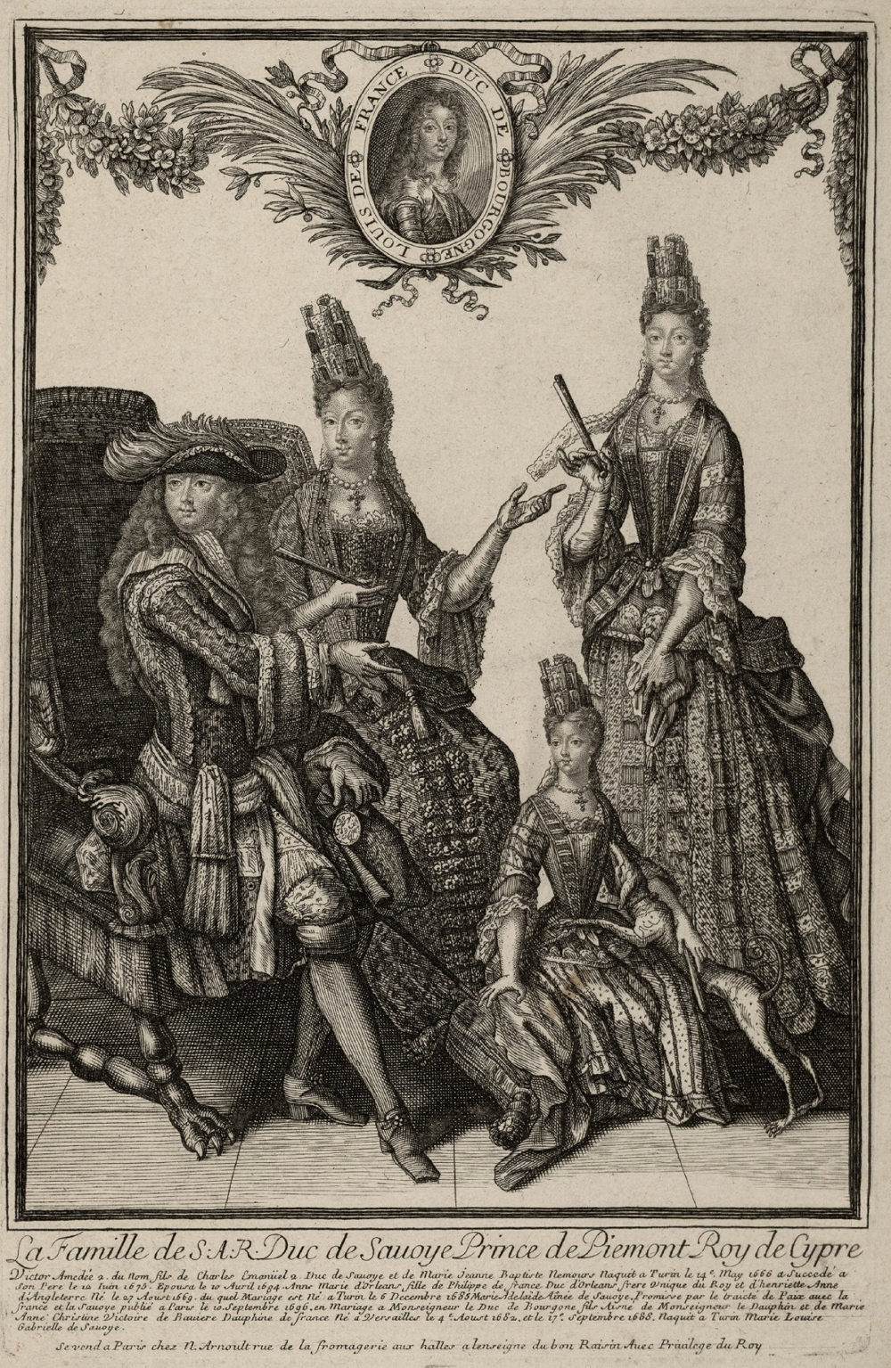 The Ducal Family of Savoy in 1697